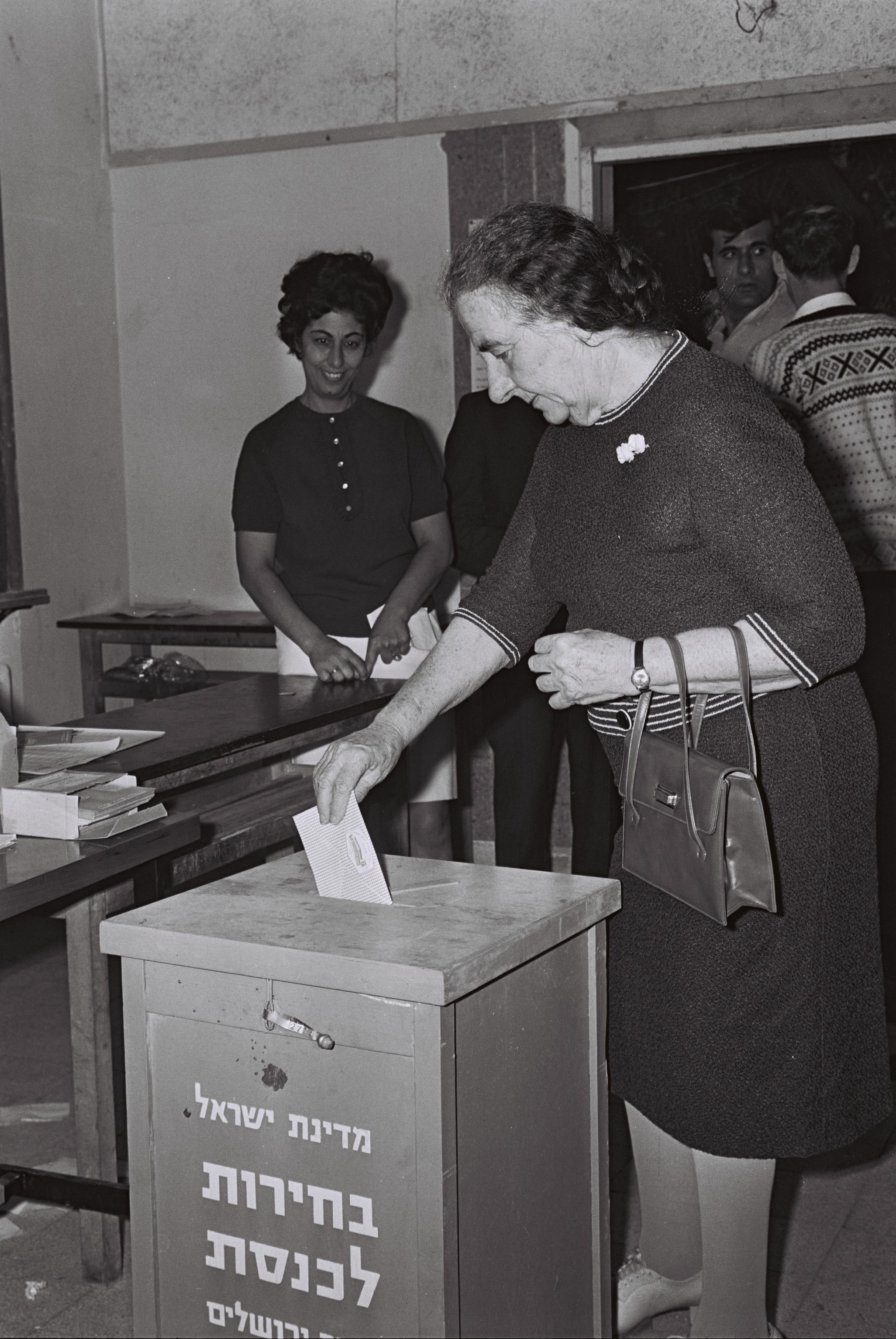 P.M. GOLDA MEIR CASTING HER VOTE INTO THE BALLOT BOX AT HER POLLING STATION ON ELECTION DAY IN JERUSALEM.